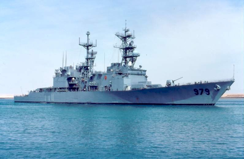 USS Conolly